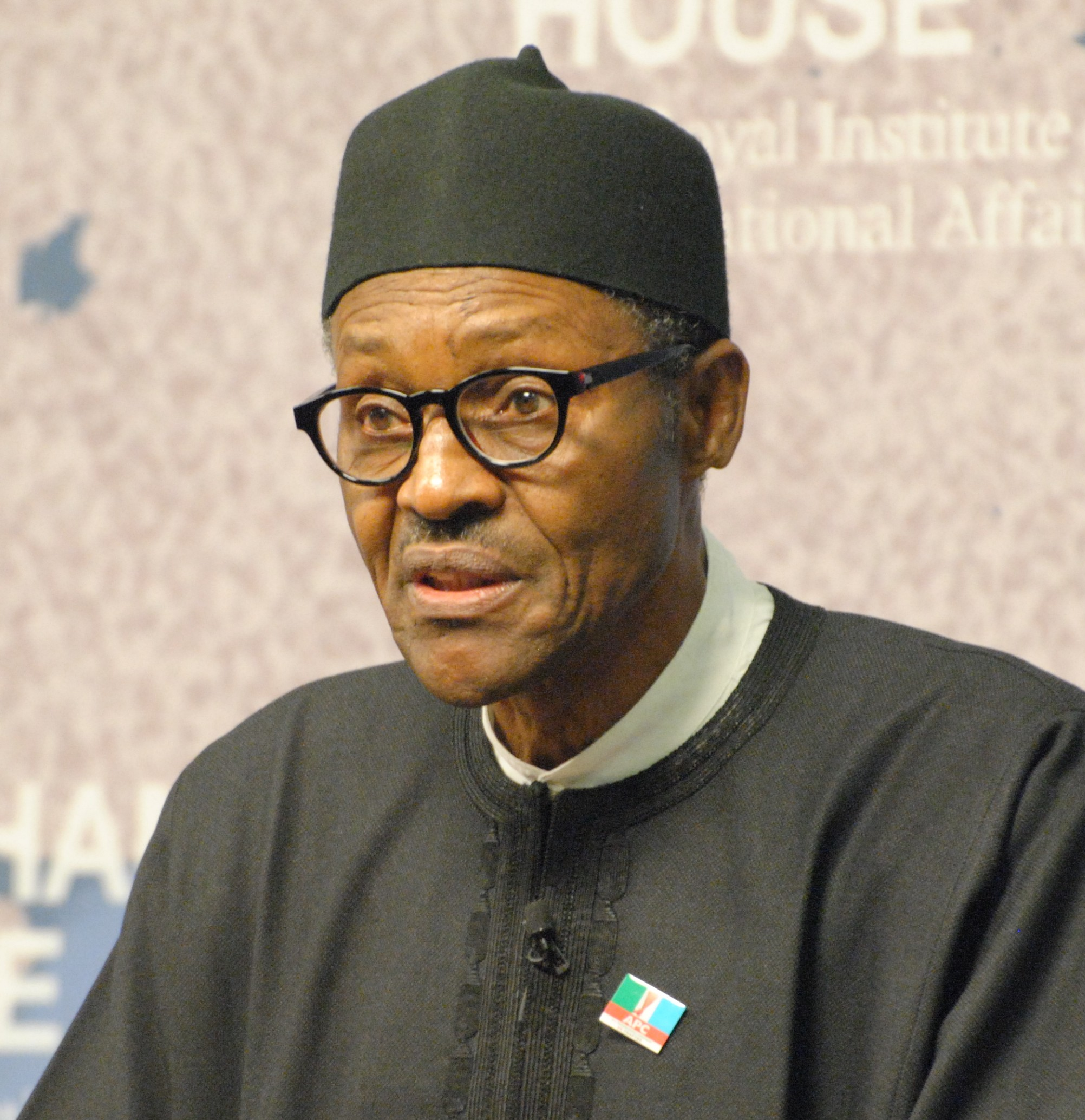 Prospects for Democratic Consolidation in Africa: Nigeria's Transition, 26 February 2015